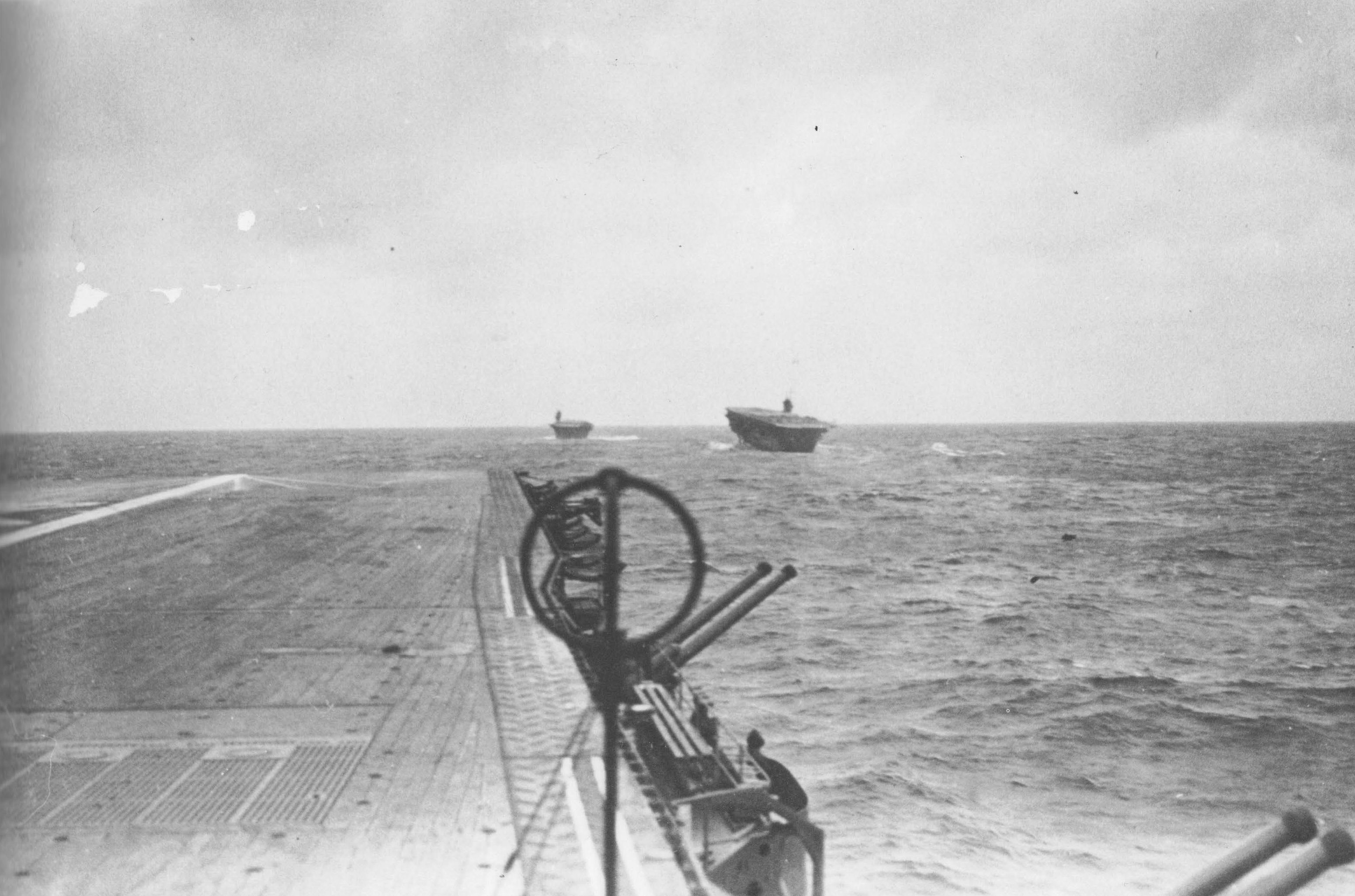 The Imperial Japanese Navy aircraft carriers Zuikaku (foreground), Kaga (near background) and Akagi (far background) head for Pearl Harbor before the official declaration of war with American forces.